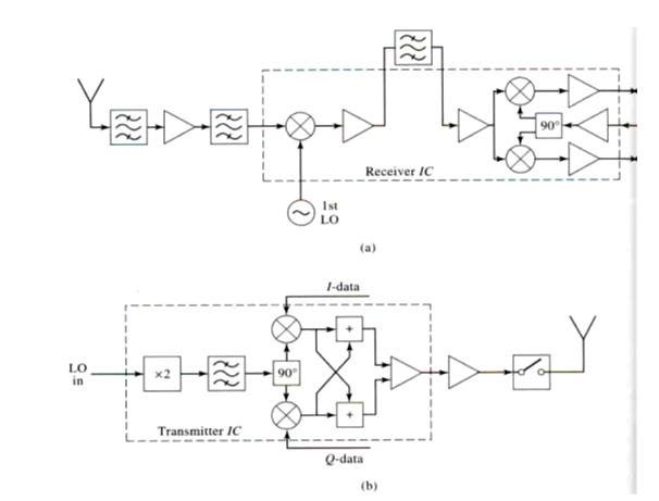 Fig. 1. 4 Bllok diagrami i sistemit celular GSM 900MHz